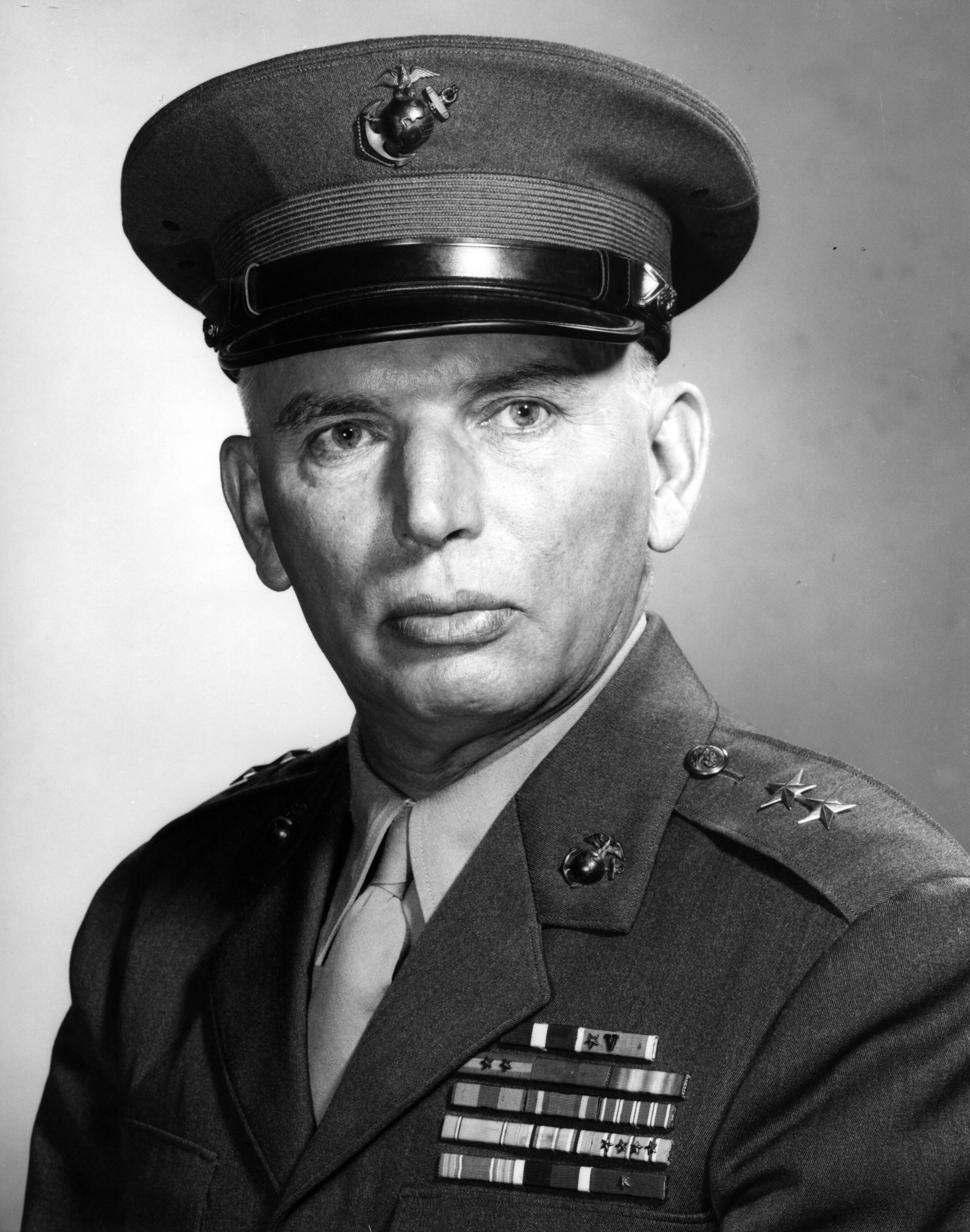 William Walter Wensinger (September 4, 1894 - July 10, 1972) was a highly decorated officer of the United States Marine Corps with the rank of Lieutenant General. He is most noted for his service as Commanding officer of 23rd Marine Regiment during Battle of Iwo Jima, when received Navy Cross, the United States military's second-highest decoration awarded for valor in combat. Wensinger finished his career as Special Advisory Assistant to the Commandant of the Marine Corps.